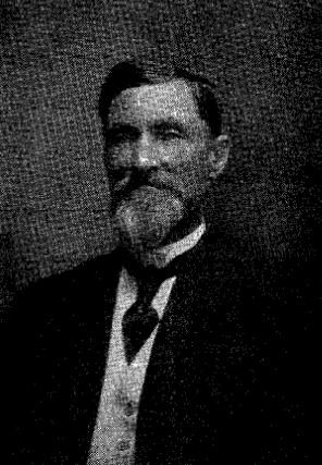 Old Oppegard, one of the first Seventh-day Adventist church workers in South America. Nurse trained at Battle Creek College and colporteur. Argentina. Sent by the General Conference of SDAs at 1895 session as self-supporting to Scandinavians of Argentina.